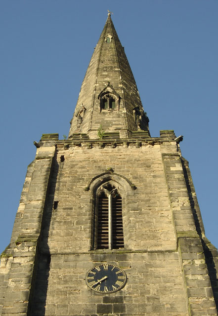 West tower and broach spire of All Hallows parish church, Gedling, Nottinghamshire. Note the entasis (curvature) of the spire, applied to correct perspective distortion.